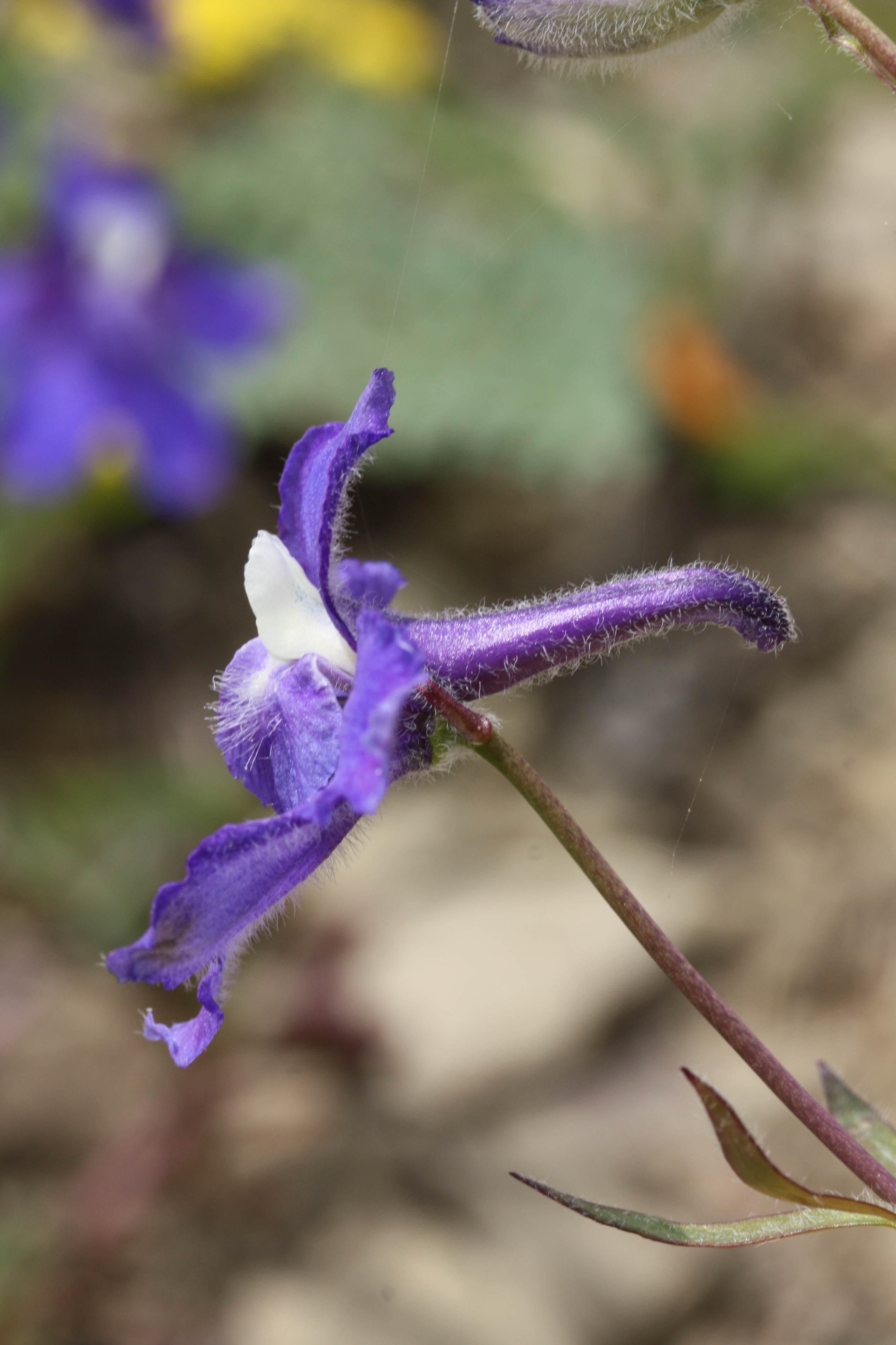 Menzies' Larkspur, Coastal Larkspur